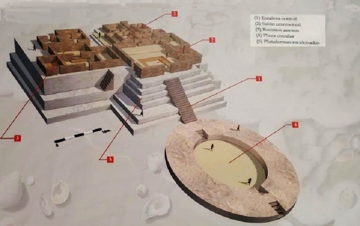 Architectural components of the complex of Áspero, Puerto Supe, Region of Lima, Peru.